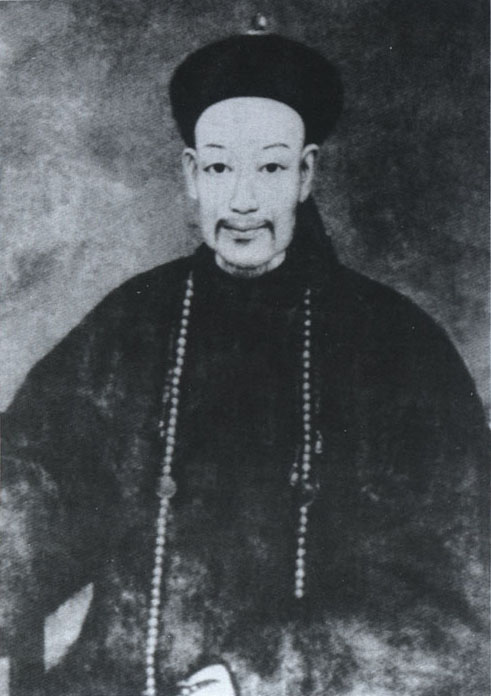 Hu Linyi, politician of the Qing Dynasty.